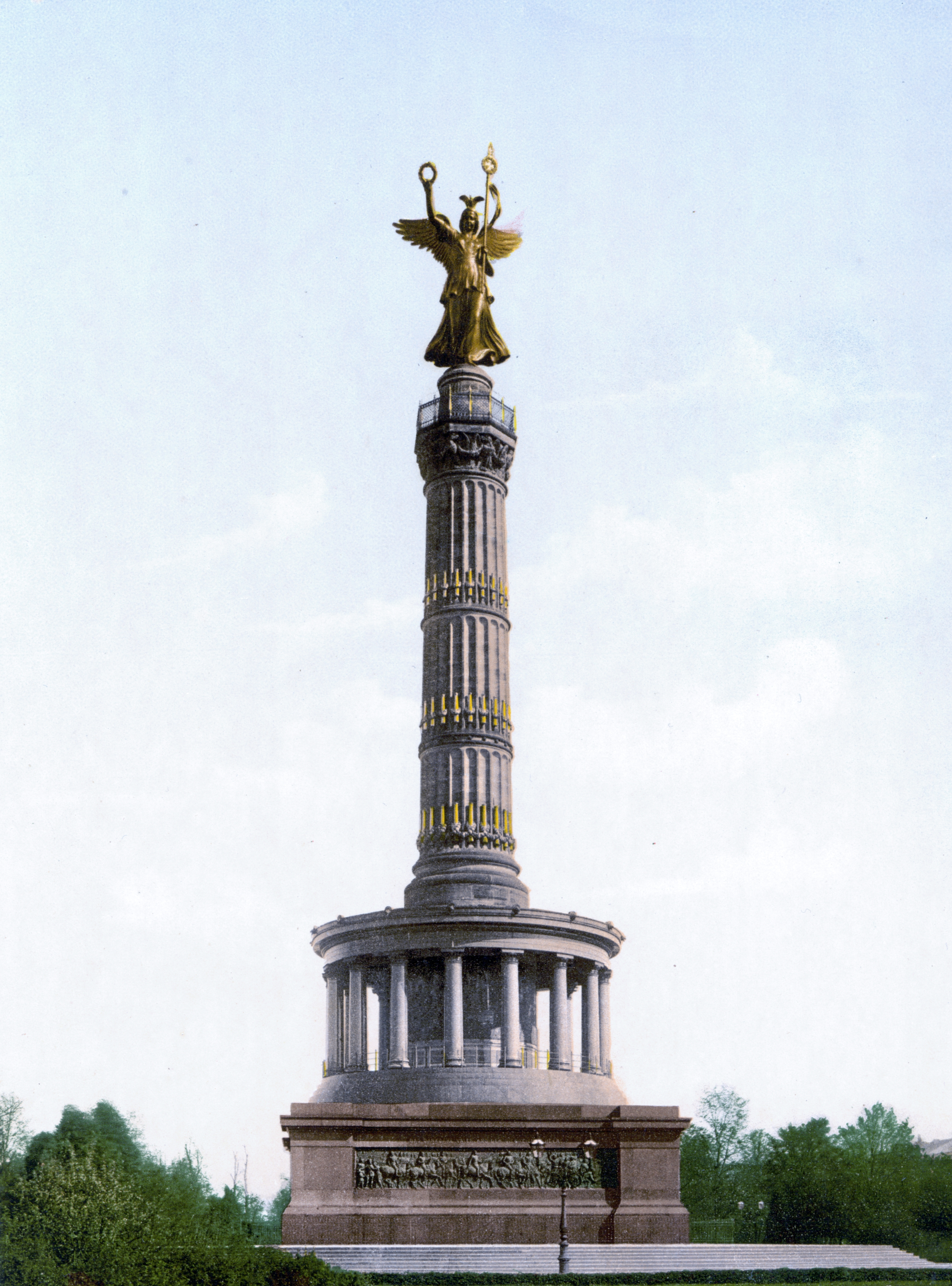 Triumphal Column (Berlin, Germany)